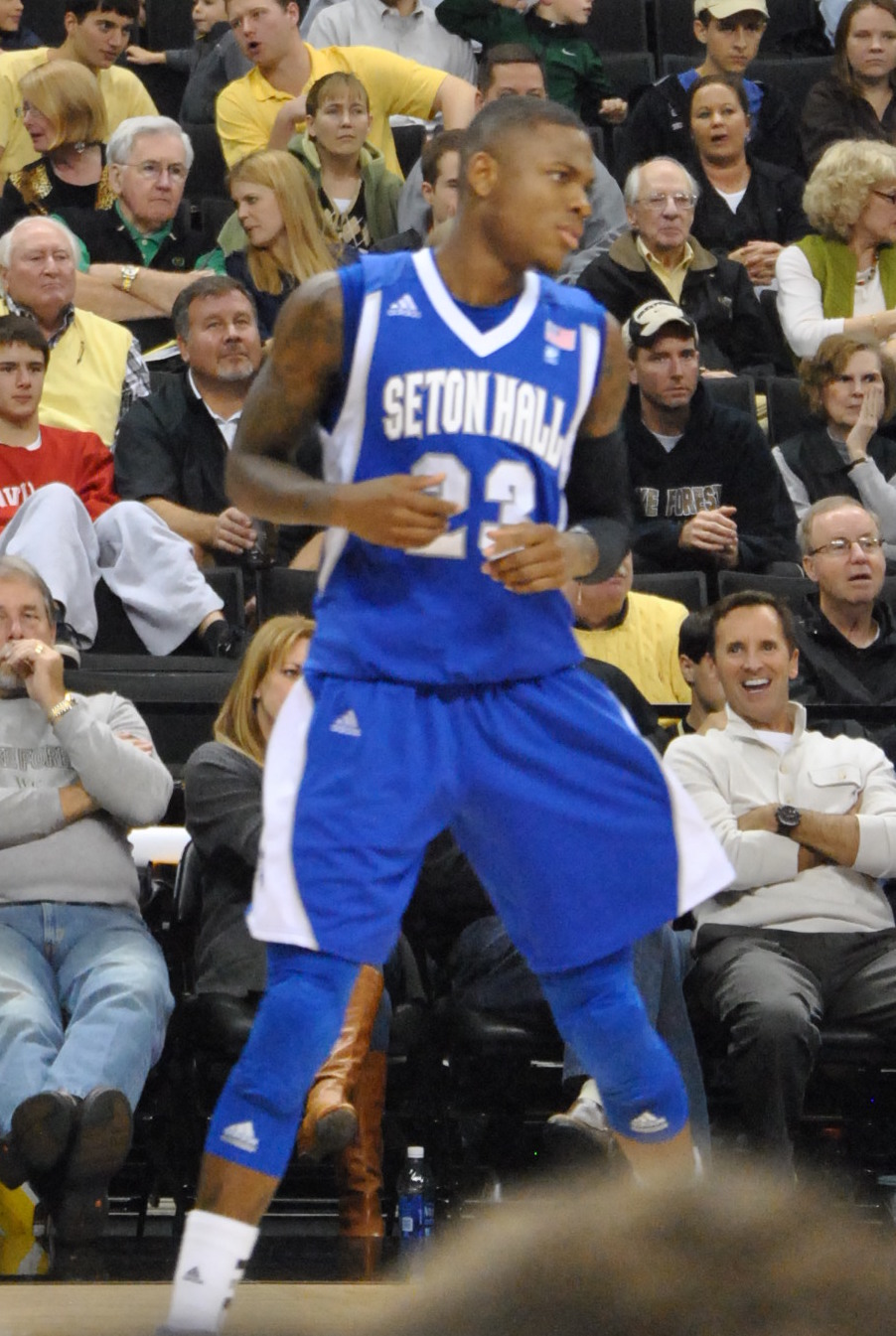 Aaron Rountree on the floor at the Joel Coliseum